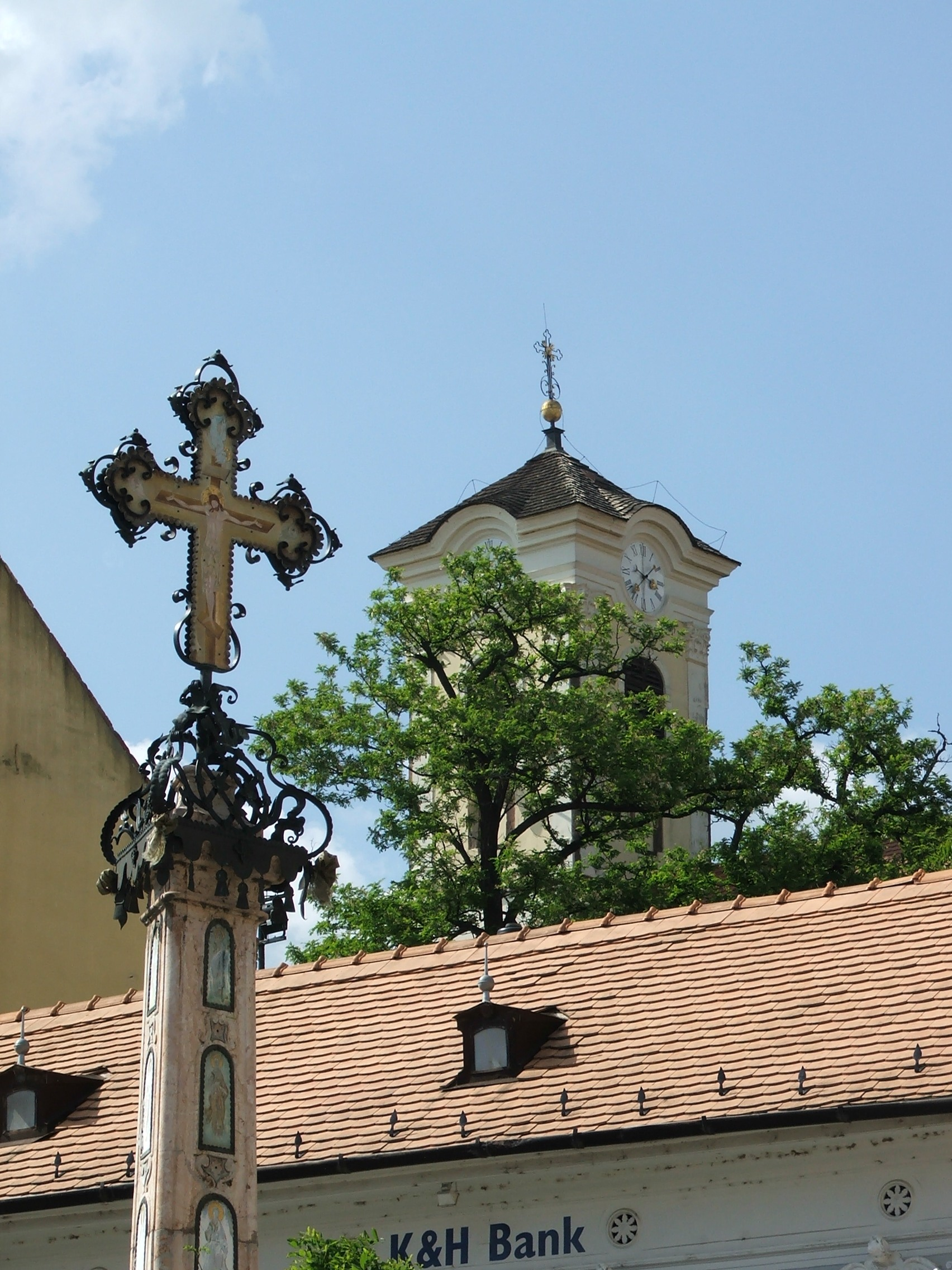 Cross on the Main Sq. in Szentendre